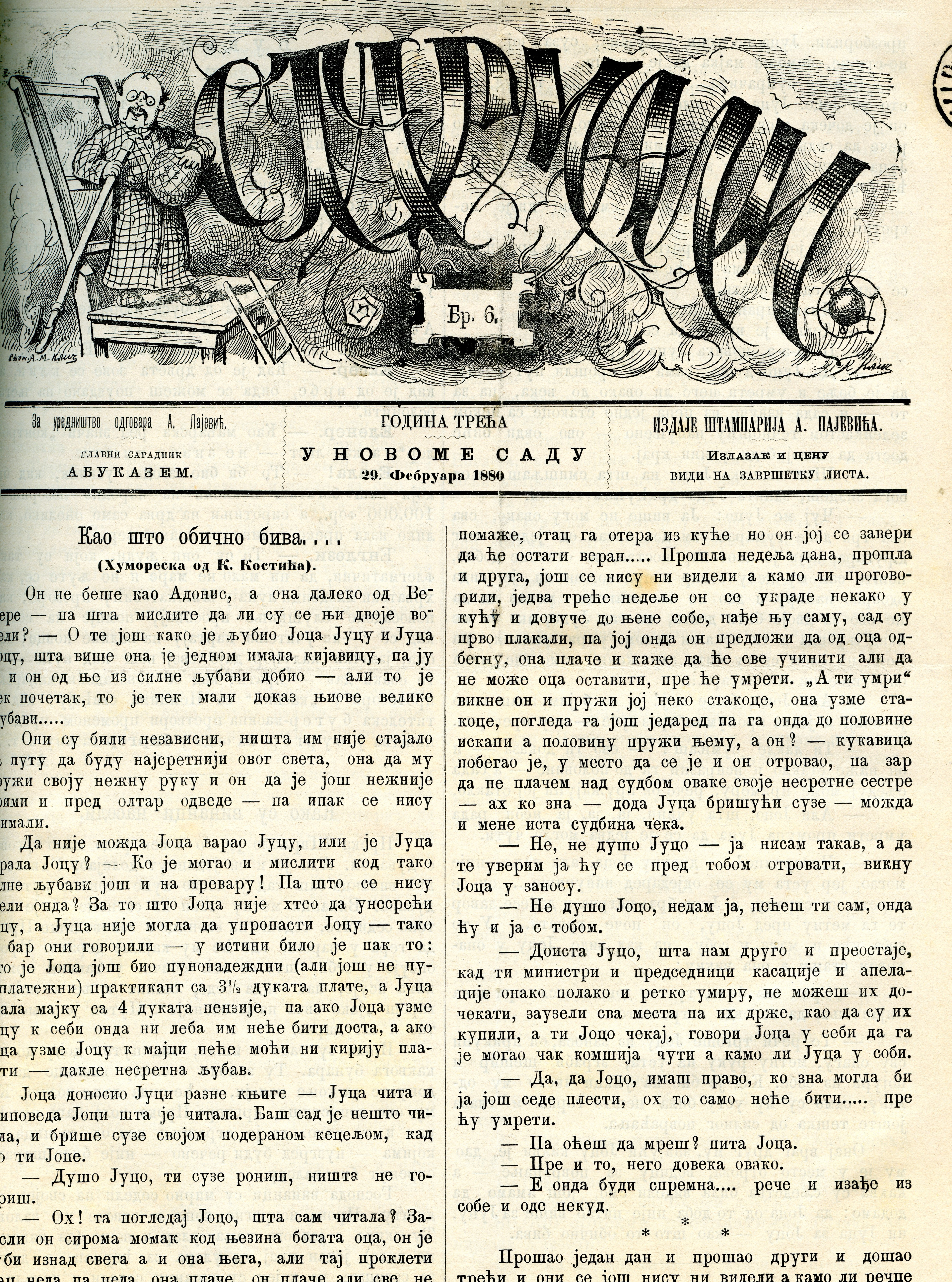 Front page of humoristic newspaper "Starmali" from 29 February 1880 Srpski (latinica): Naslovna strana humorističkog lista "Starmali" od 29. februara 1880